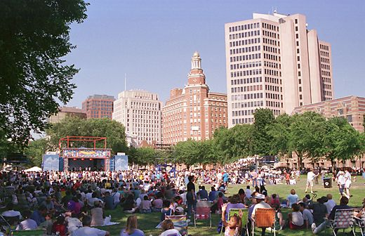 A festival in the New Haven Village Green from August 2006.